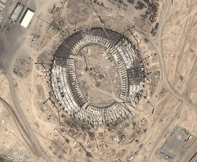 Baku National Stadium from Satellite. Under construction.